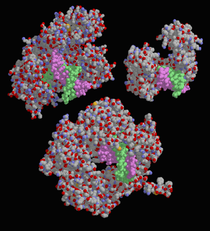 Structures of E. coli DNA Pol I (upper left), human DNA Pol β (upper right), and Bacteriophage rb69 DNA polymerase (bottom). They belong to Families A, X, and B of DNA polymerases, respectively. The template strand is colored purple, the newly built strand is green.